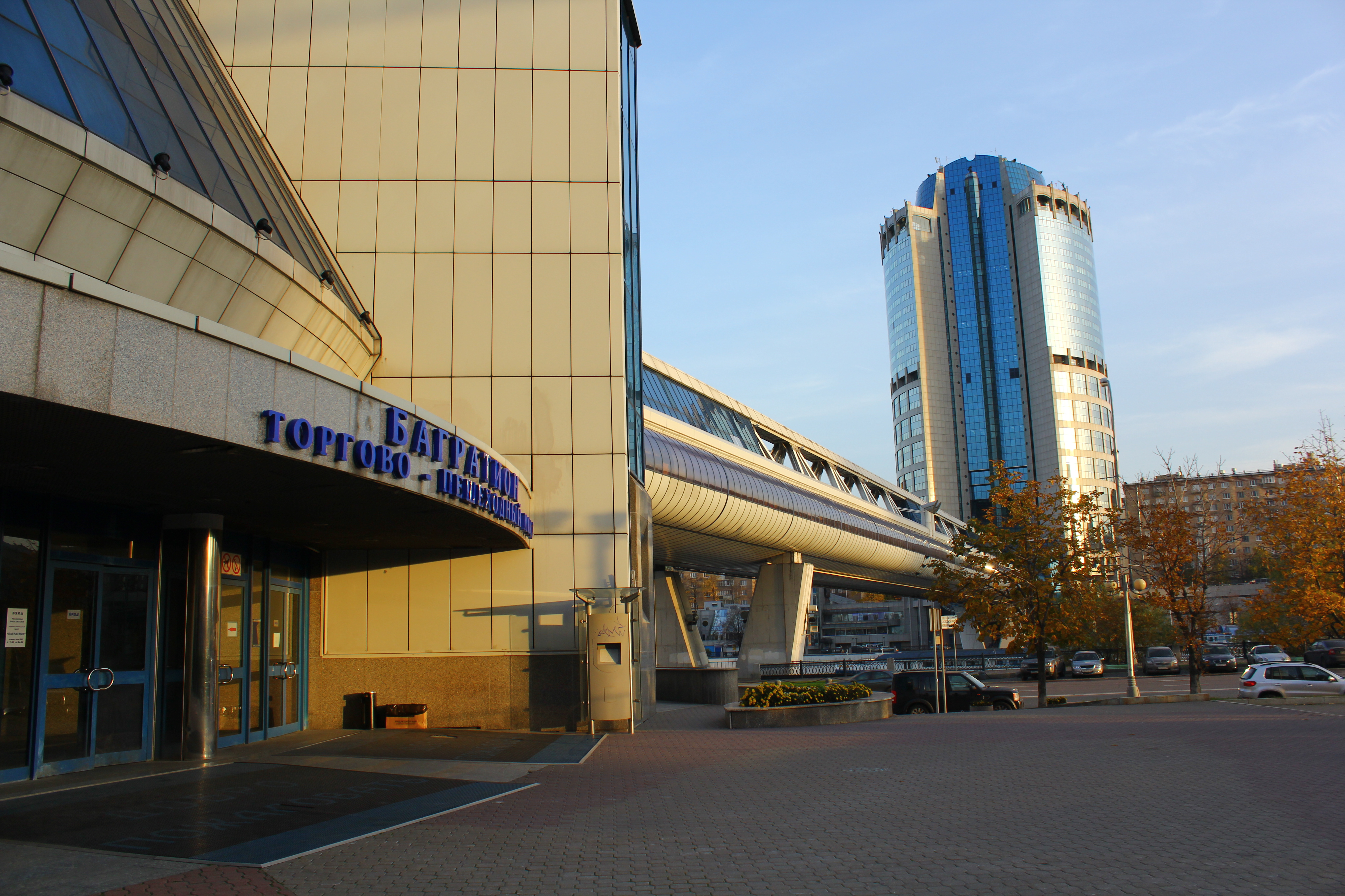 Tower 2000 20th October 2012